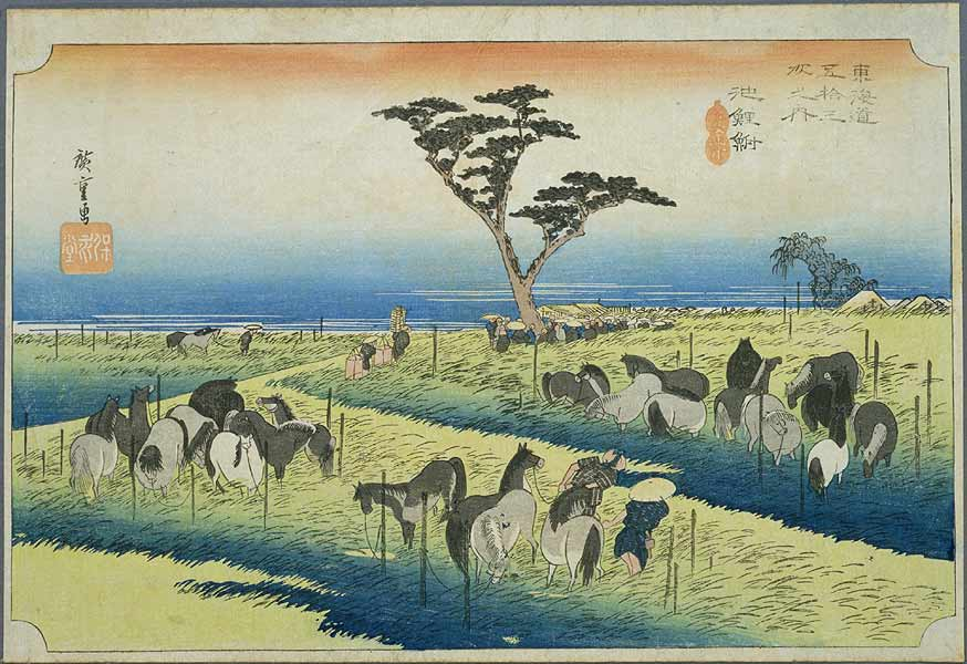 Chiryu on the Tokaido, ukiyo-e prints by Hiroshige